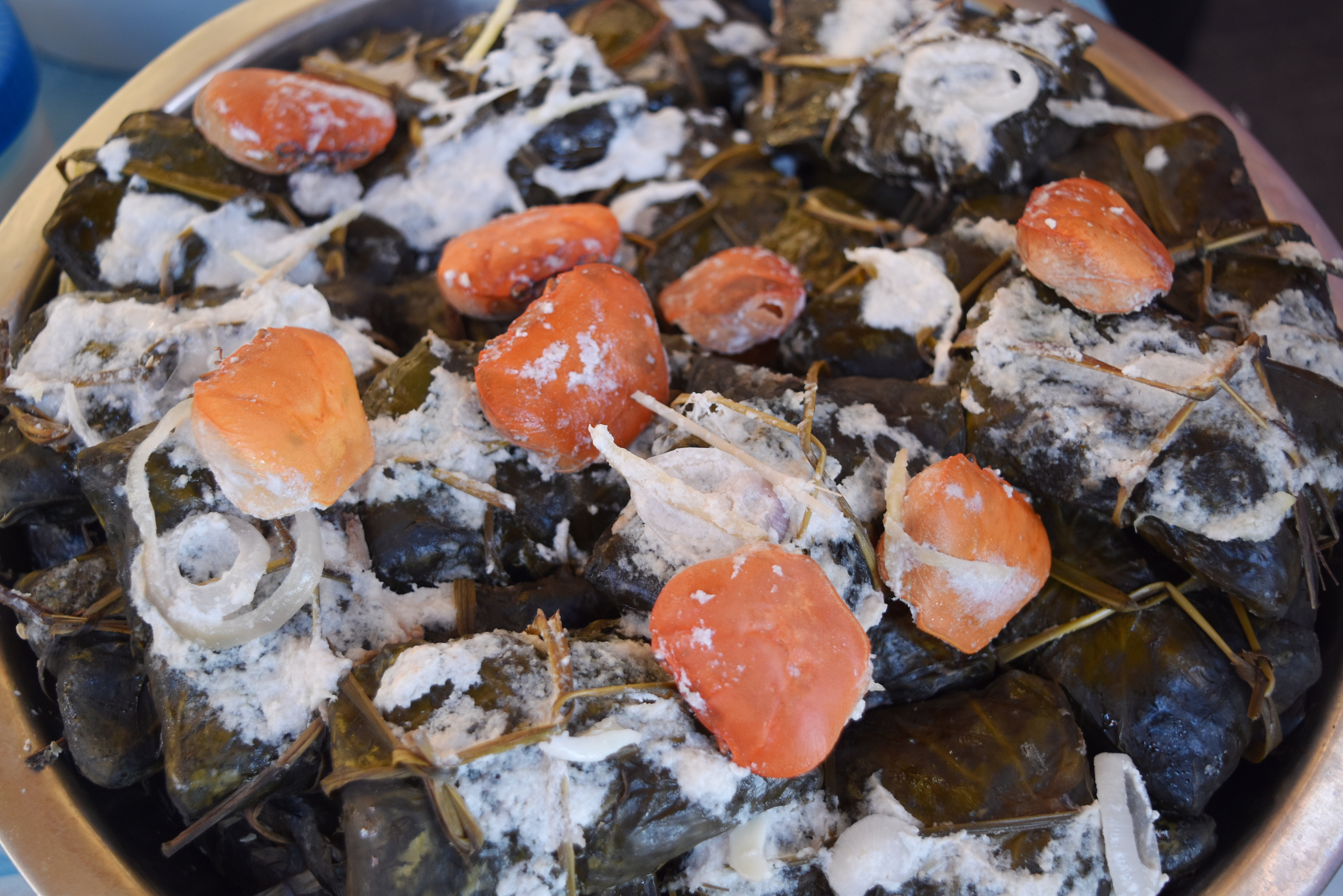 Pinangat sa Baao na Ugama